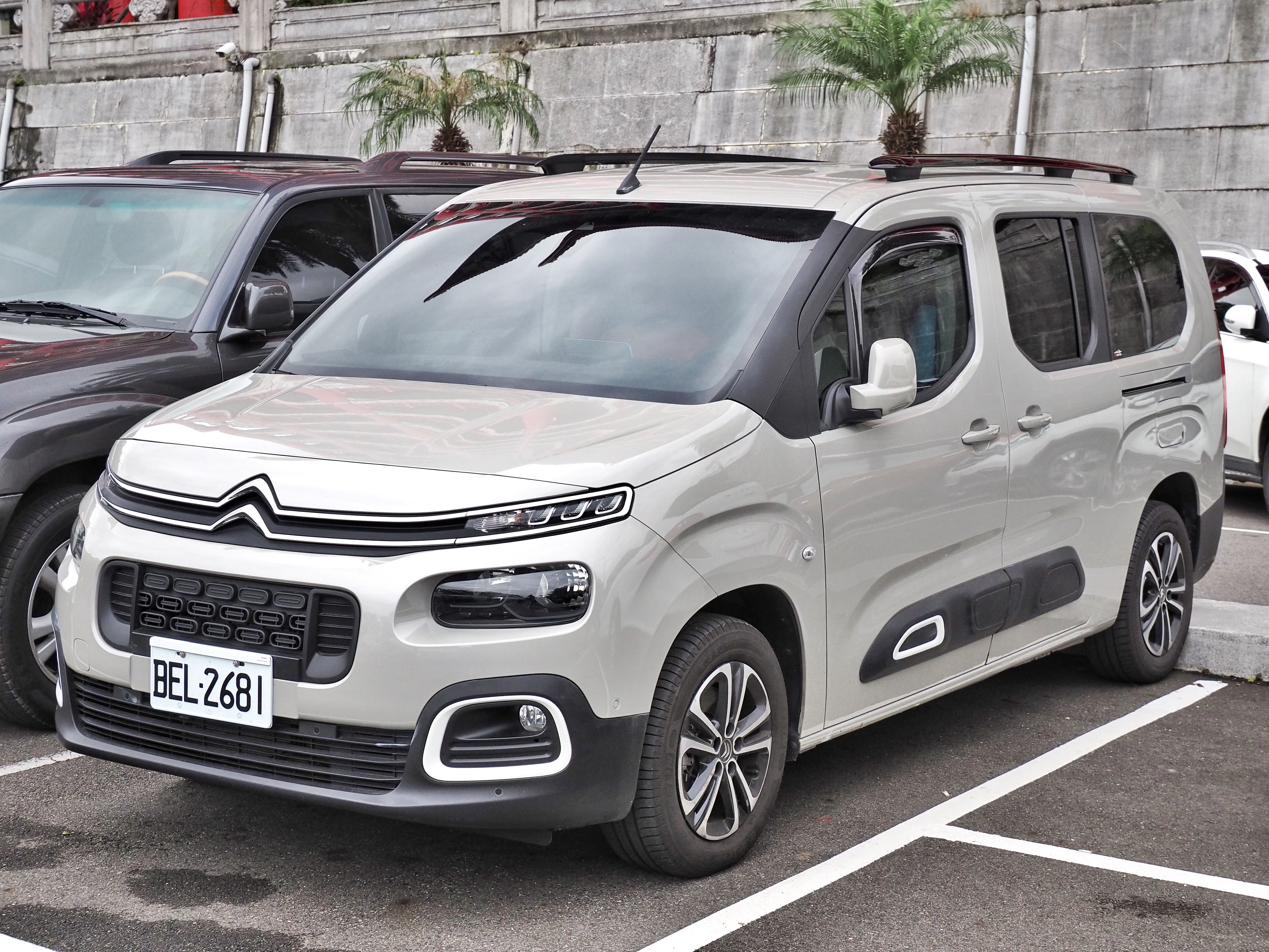 A 2019 Citroën Berlingo photographed in Zhongshan District, Taipei, Taiwan